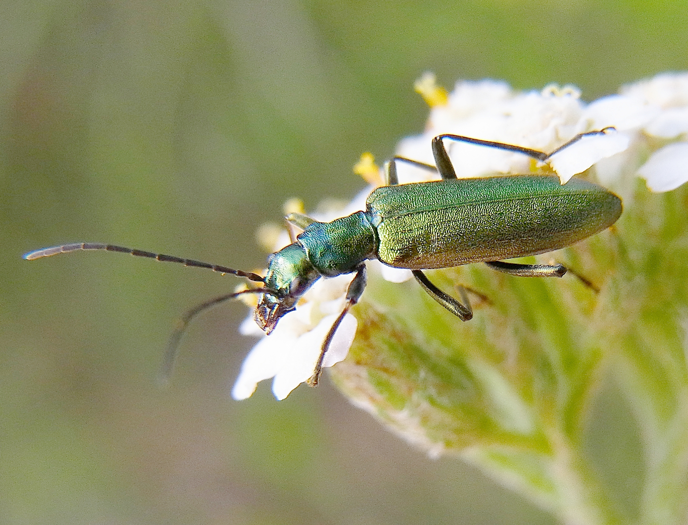 Chrysanthia viridissima from Hungary, Bugac-Puszta at 2012-06-11